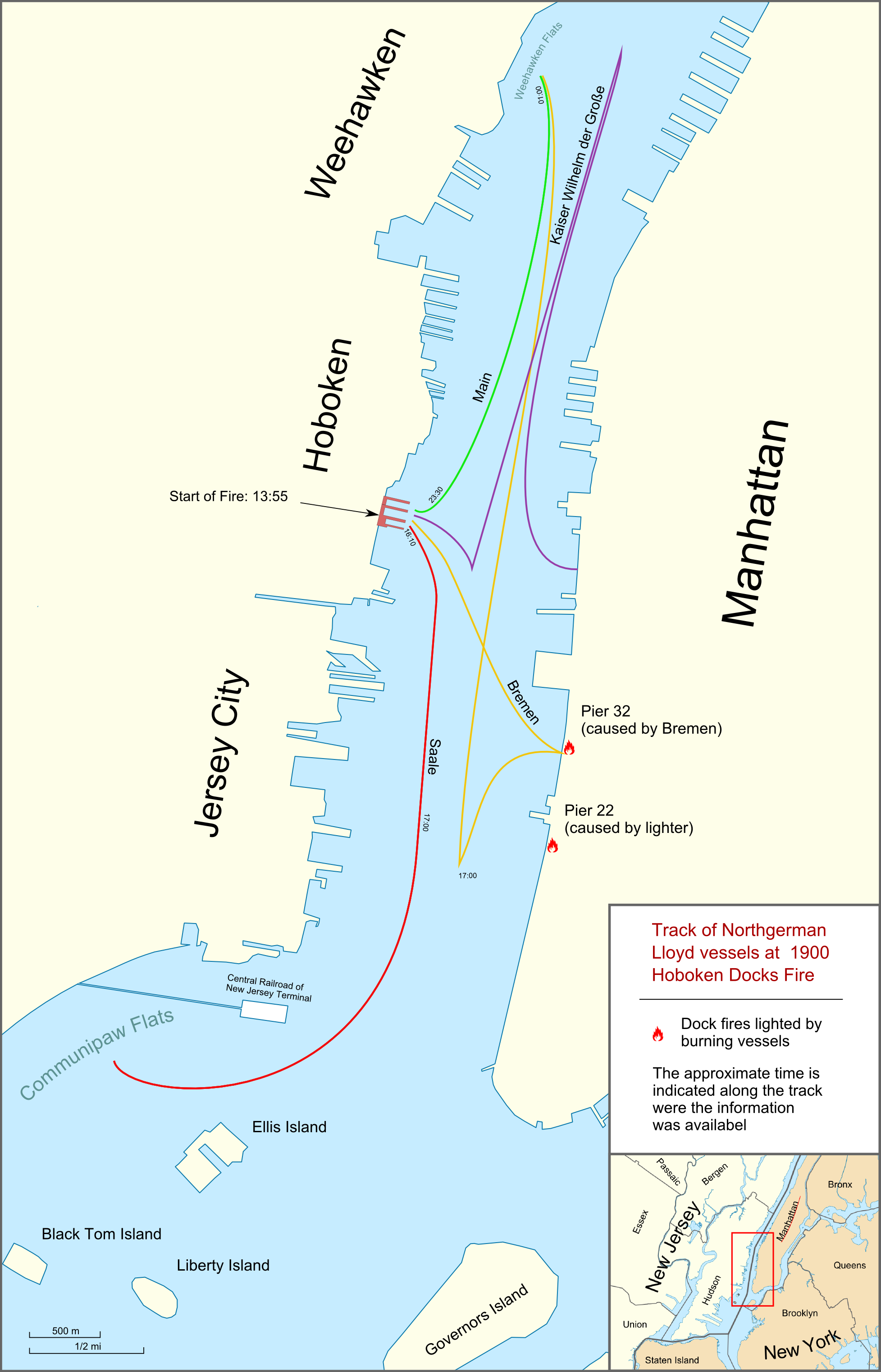 Map of the en:1900 Hoboken Docks Fire showing the tracks of the North German Lloyd ships during the incident.